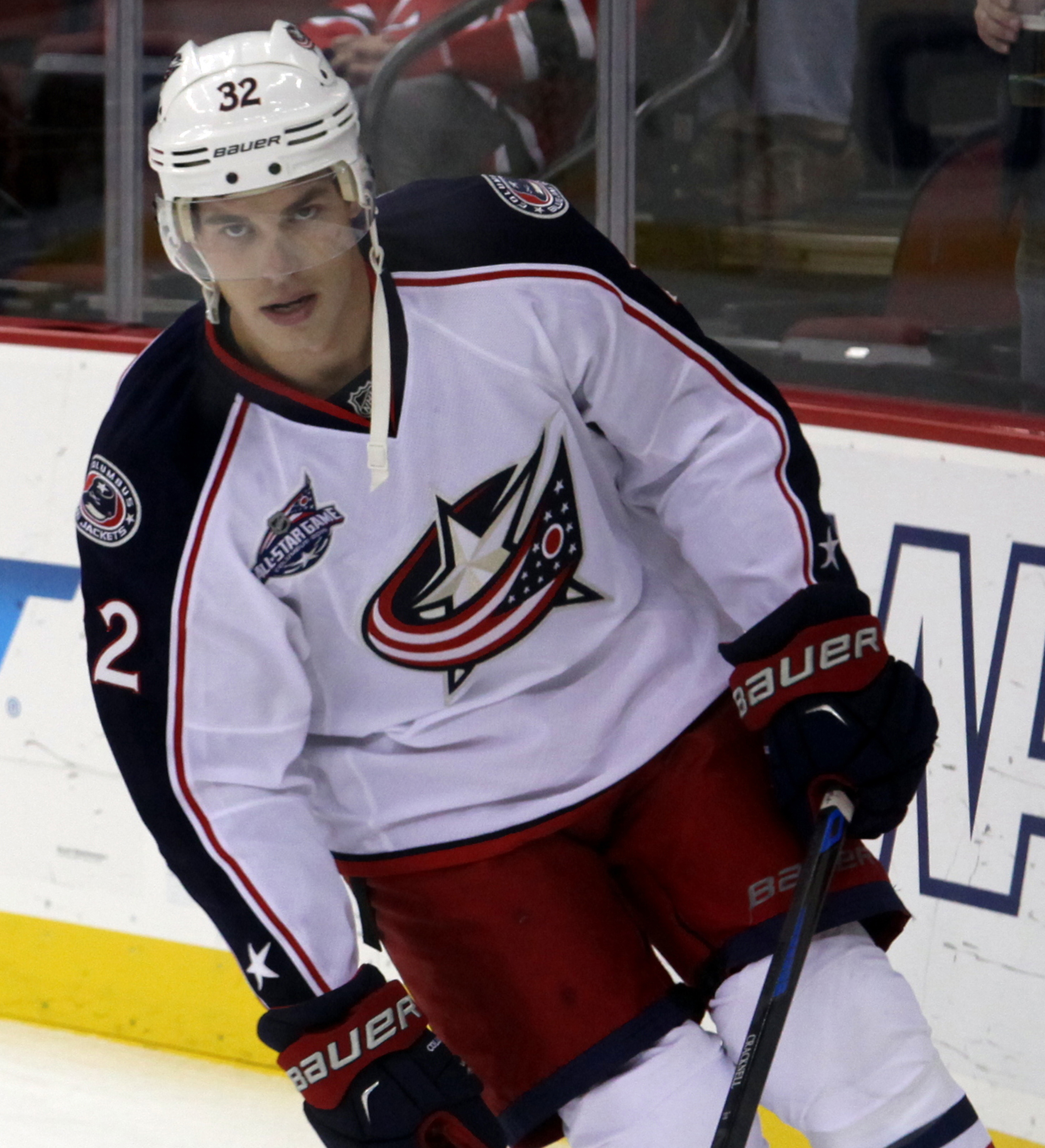 Adam Cracknell in November 2014.